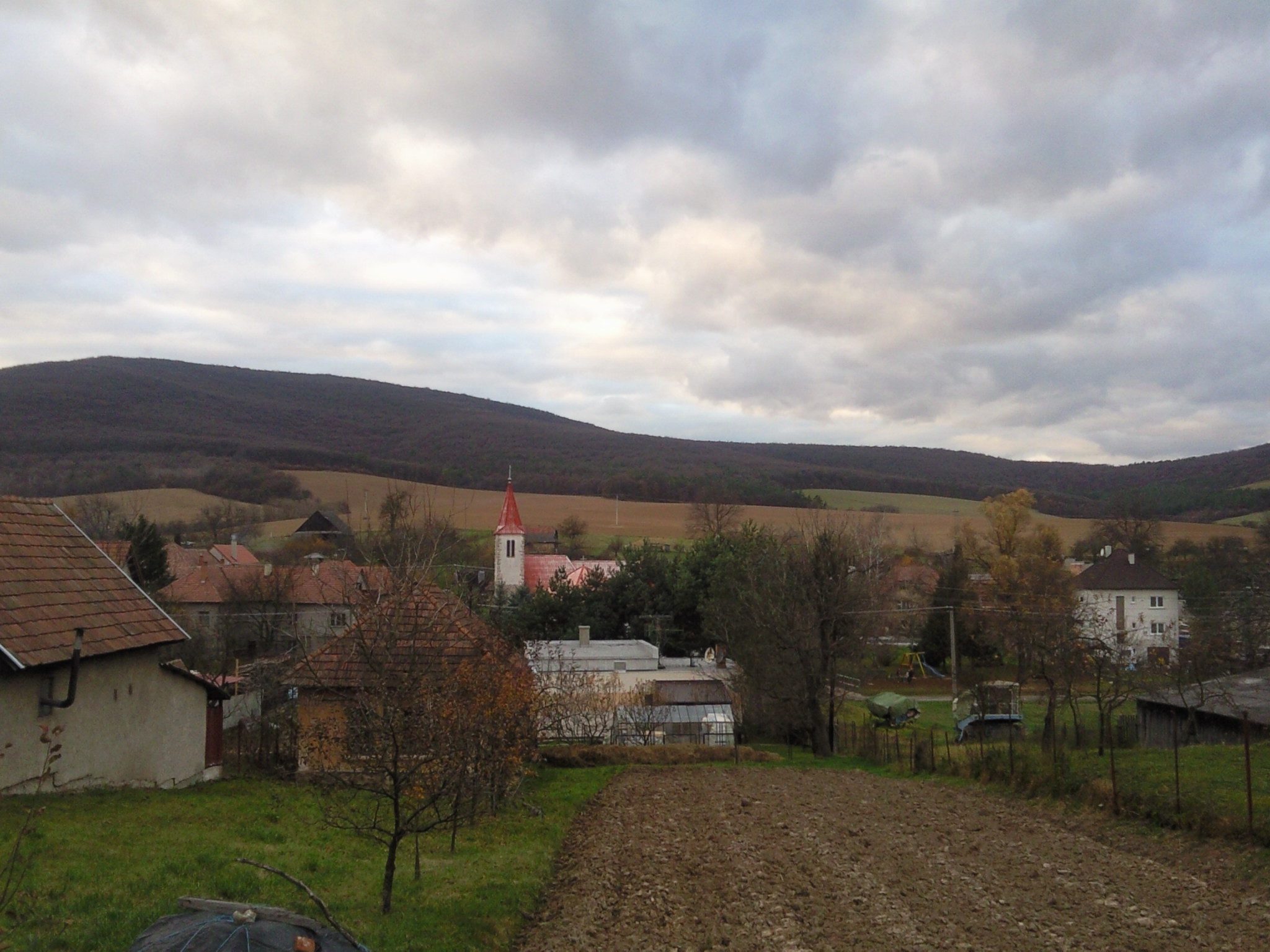 Kolacno vilage